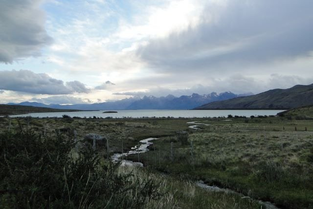 Lake Viedma (Argentina)